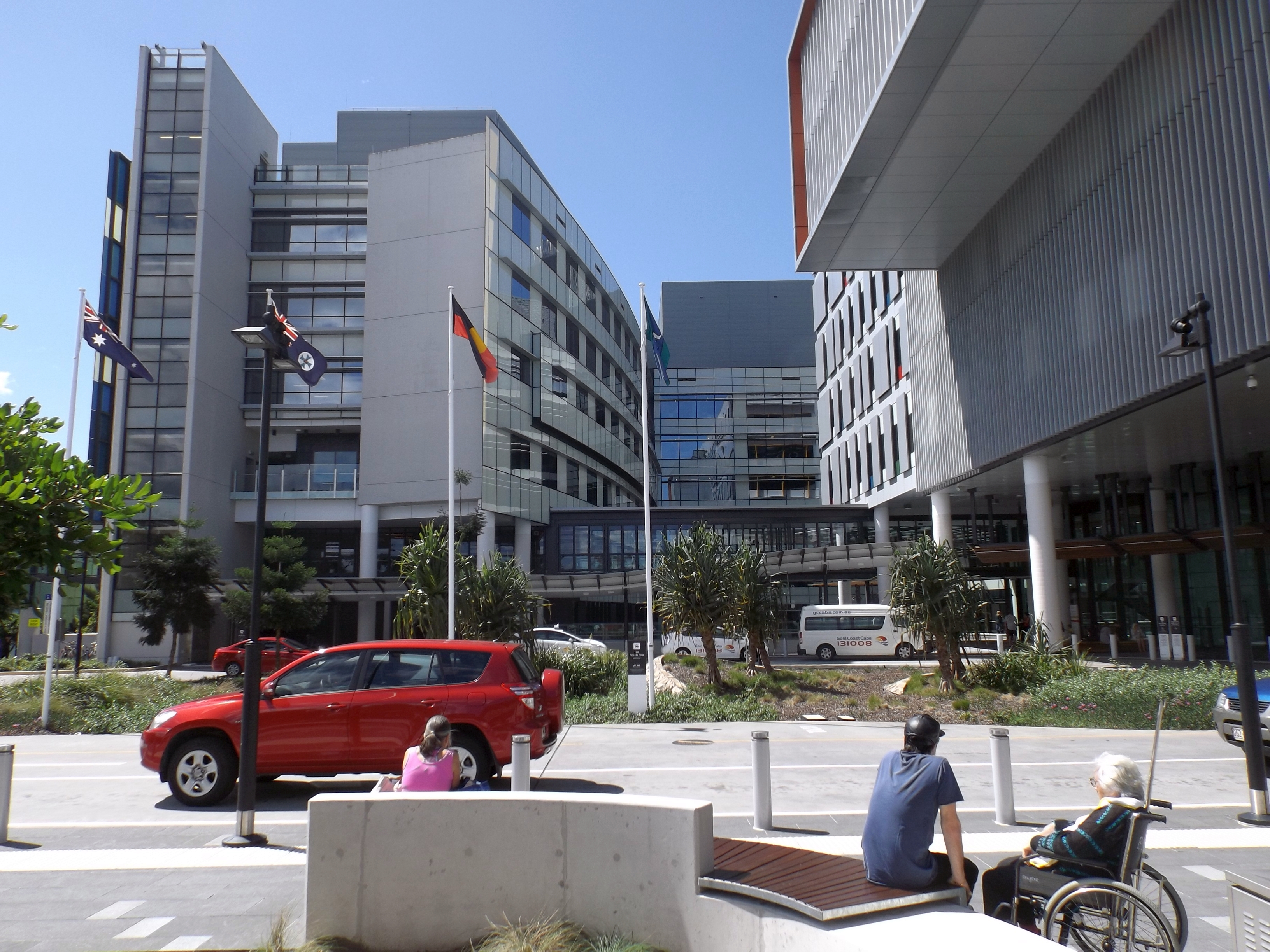 Photo of the main entry at the Gold Coast University Hospital at Southport, Gold Coast City, Queensland, Australia.